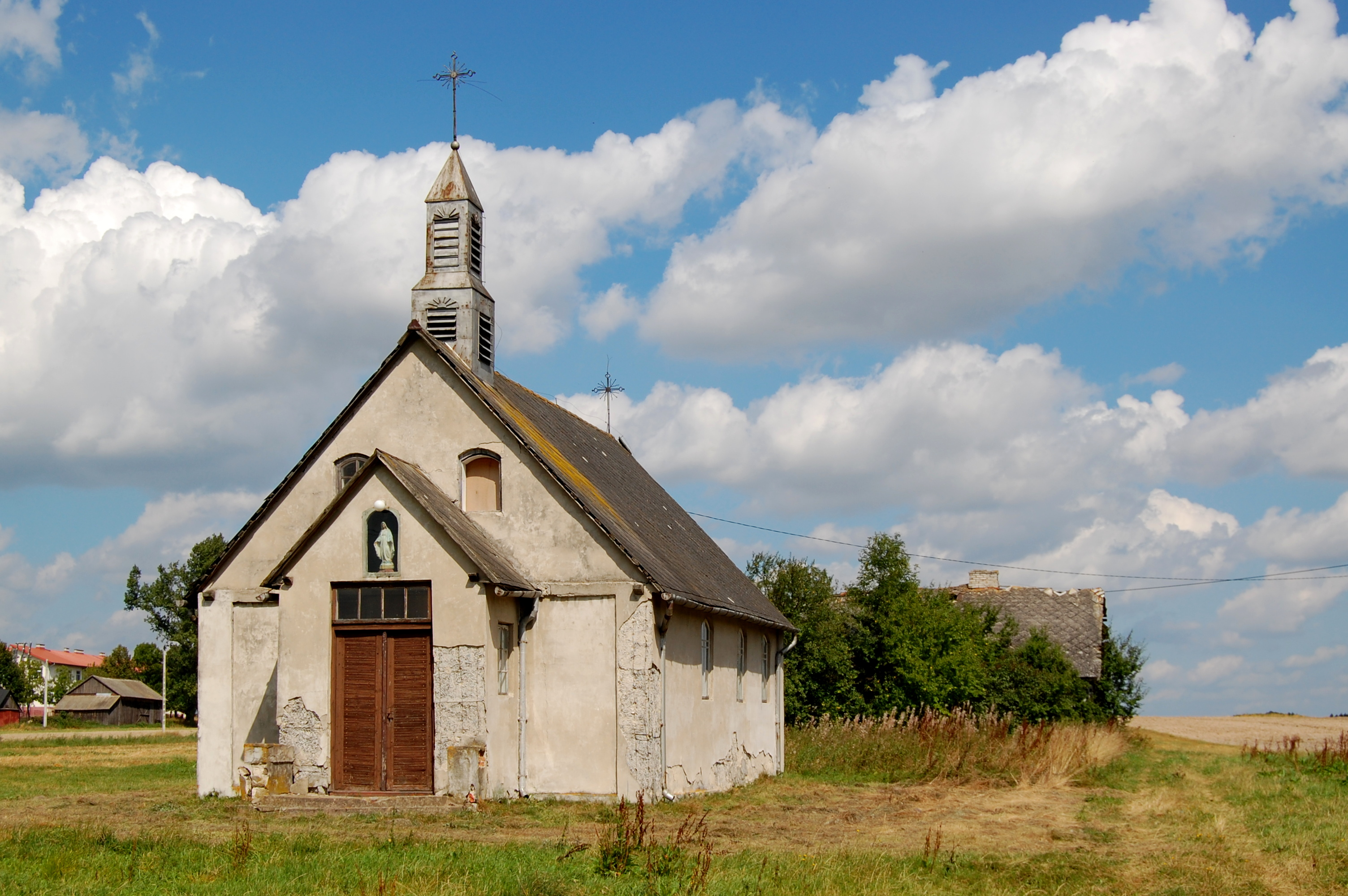 Mariavite church, Gozd, Lublin Voivodeship, Poland.